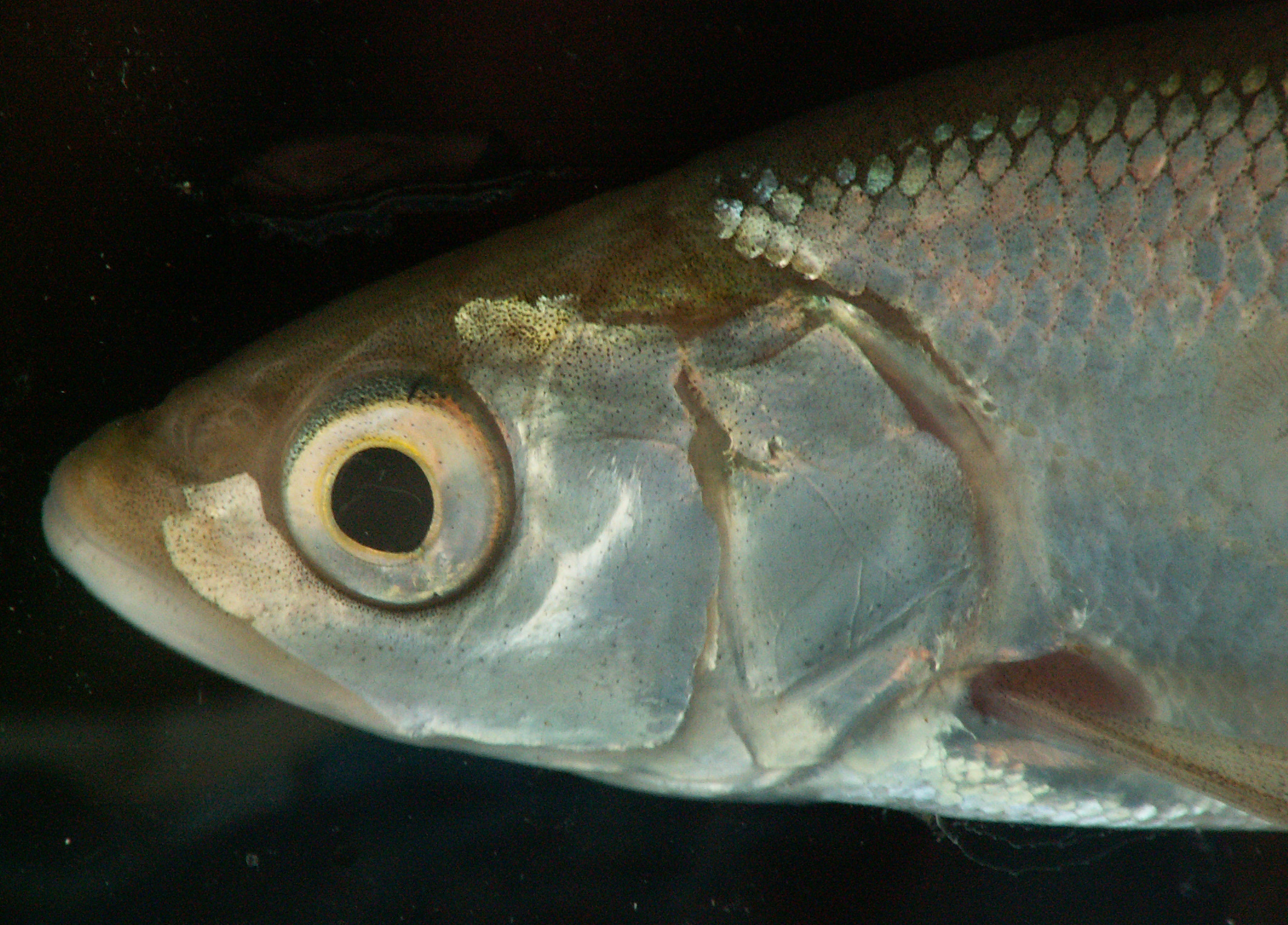 Head of Aspius aspius